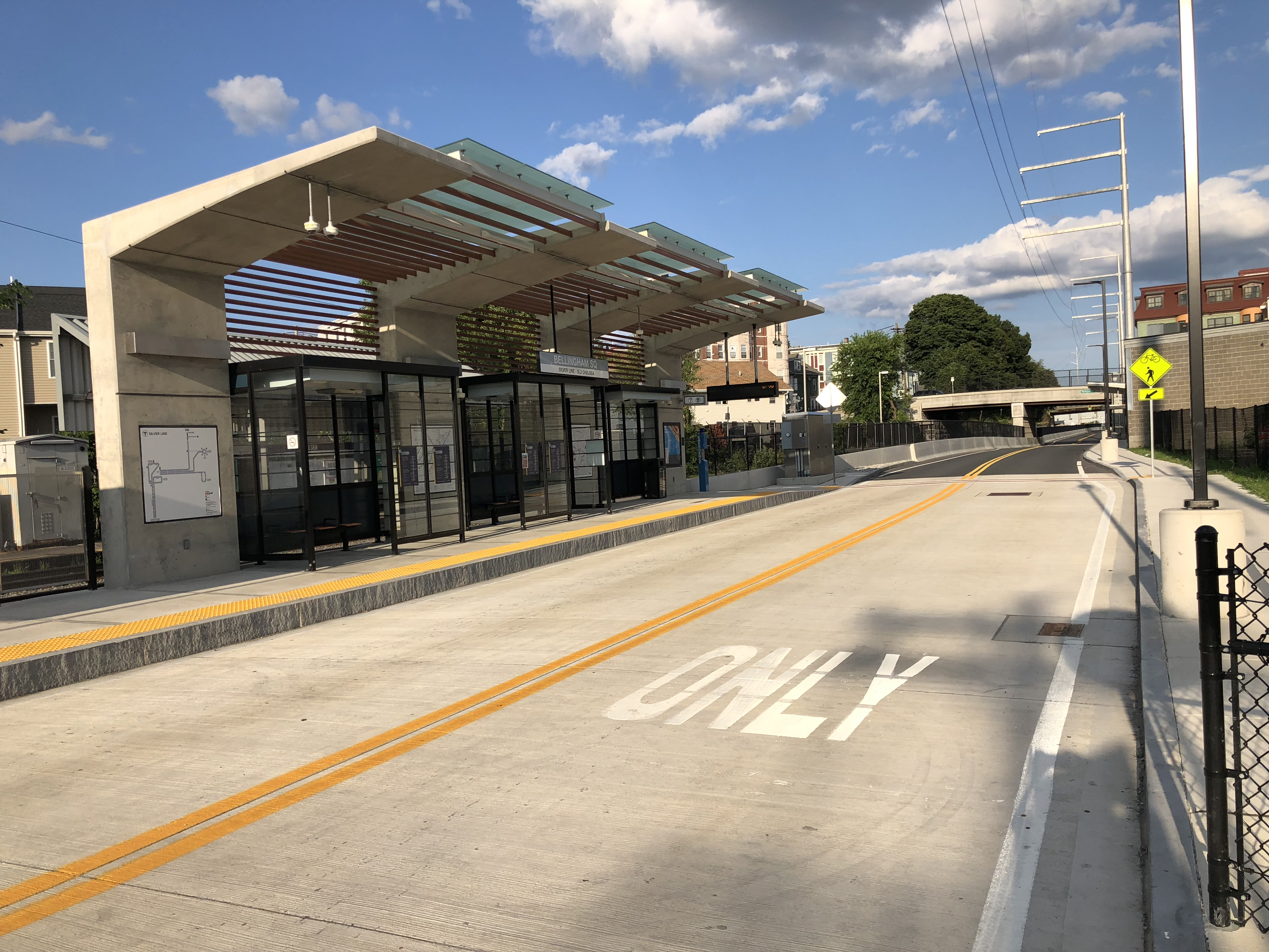 Bellingham Square Station looking east. Outbound platform, left, inbound platform in the distance, right